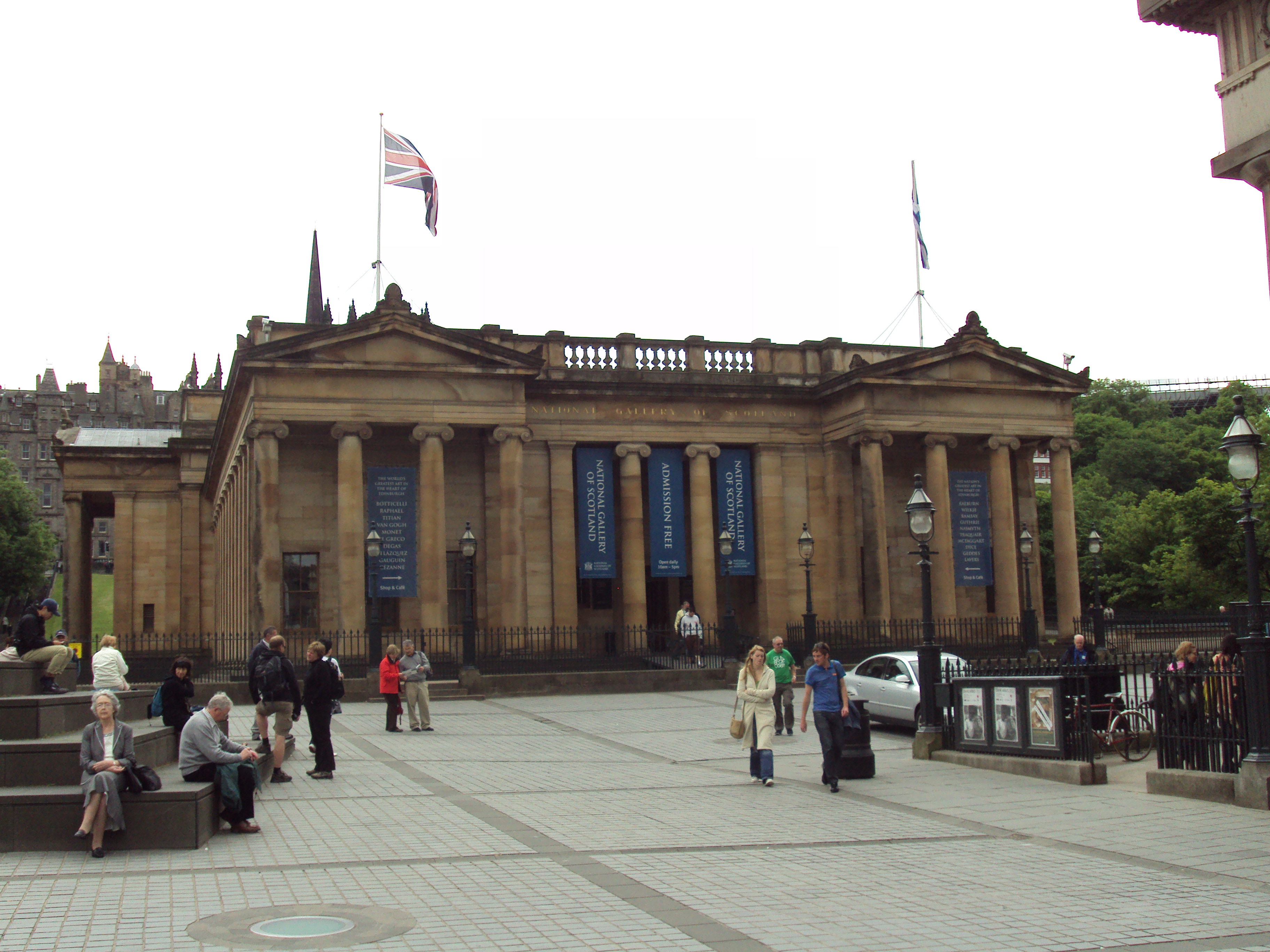 National Gallery of Scotland, Edinburgh.